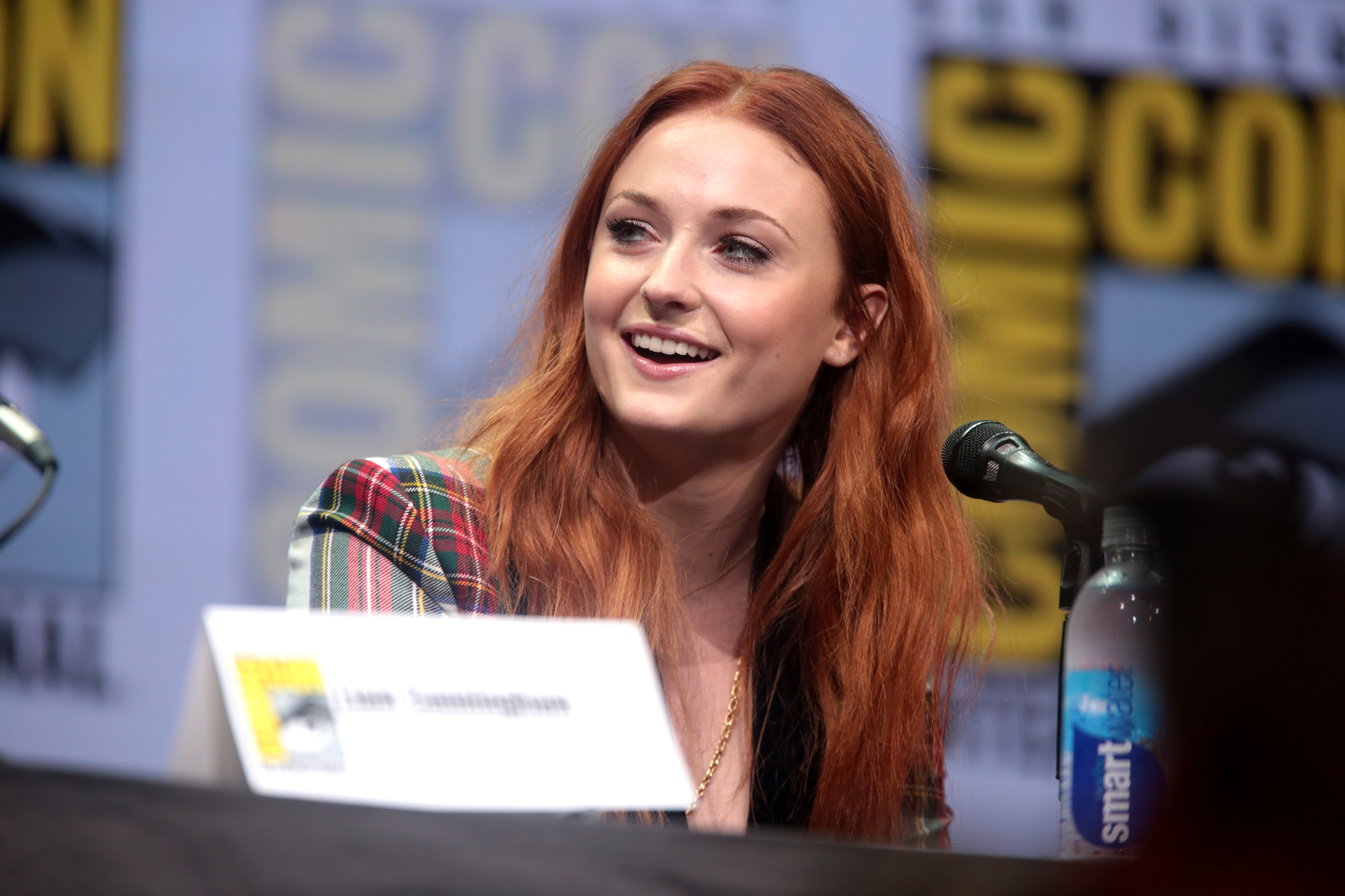 Sophie Turner speaking at the 2017 San Diego Comic Con International, for "Game of Thrones", at the San Diego Convention Center in San Diego, California.